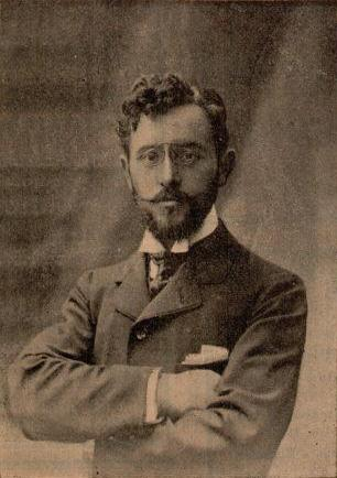 Portrait of French composer Florent Schmitt (1870 - 1958), Grand Prix de Rome in 1900